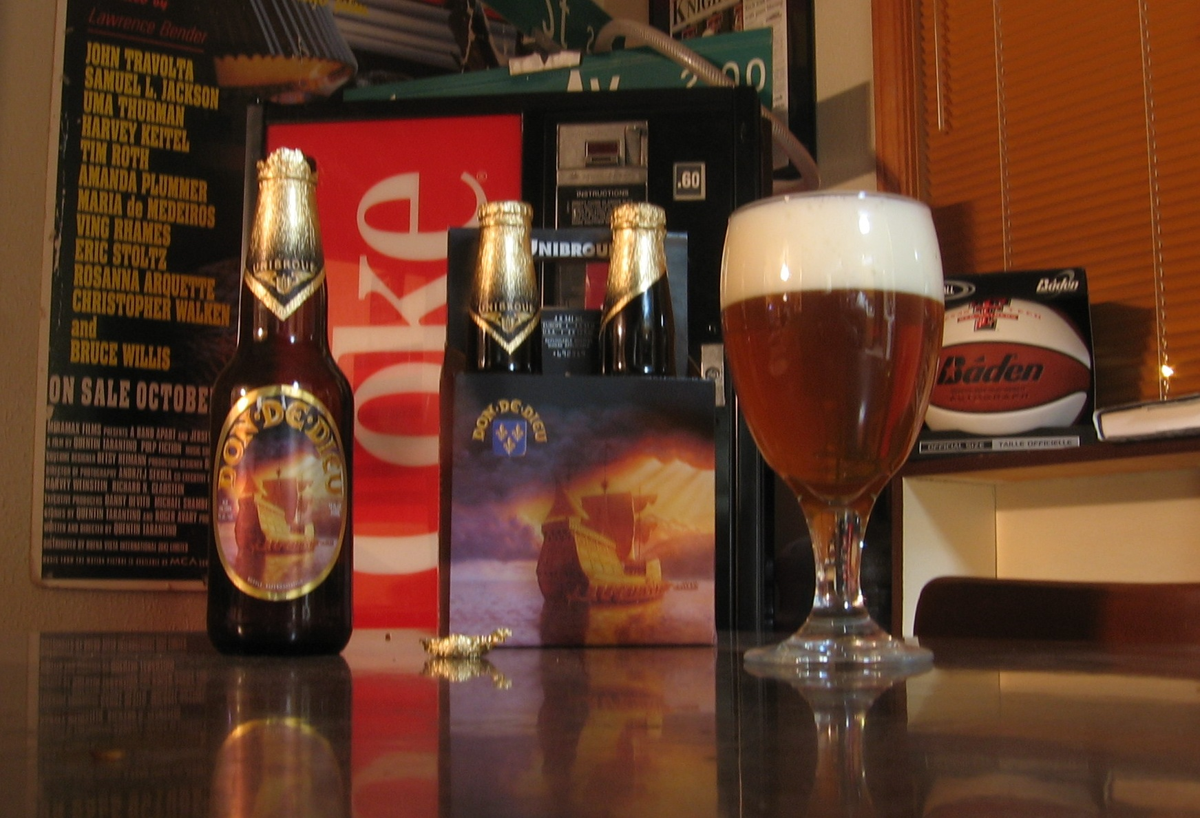 Don de Dieu the gift of god from Unibroue. Taken and consumed by John McStravick